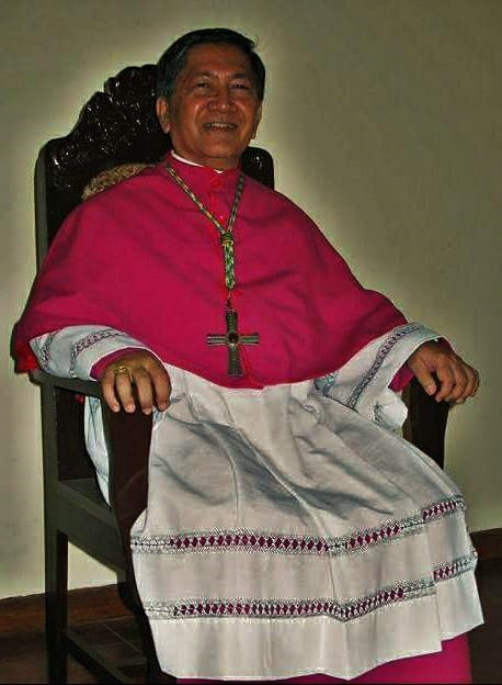 Photo of His Excellency Jose Romeo O. Lazo, D.D., Archbishop of Jaro (Philippines).